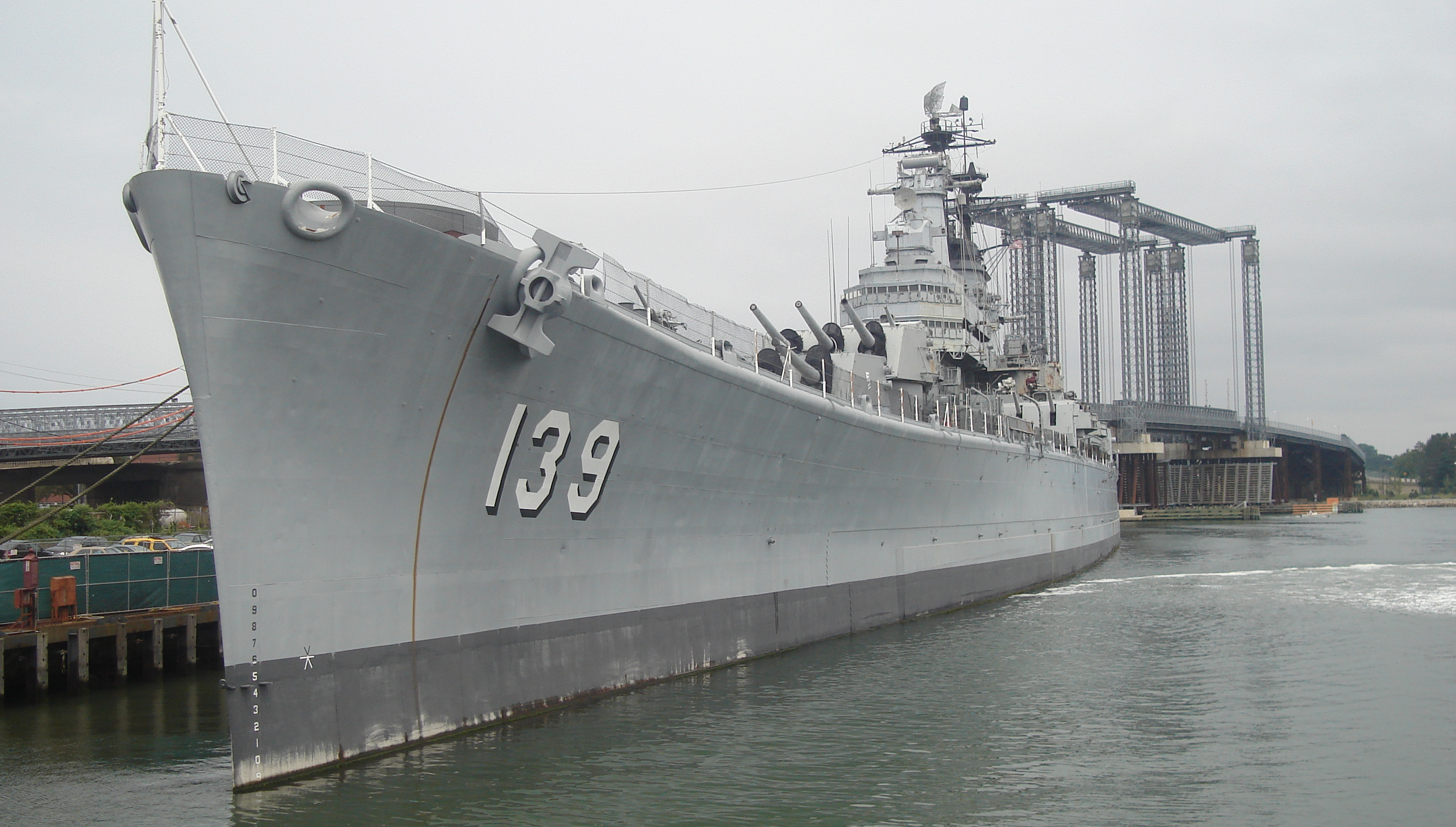 View of USS Salem (CA-139), a preserved heavy cruiser that is the centerpiece of the United States Naval Shipbuilding Museum in Quincy, Massachusetts.